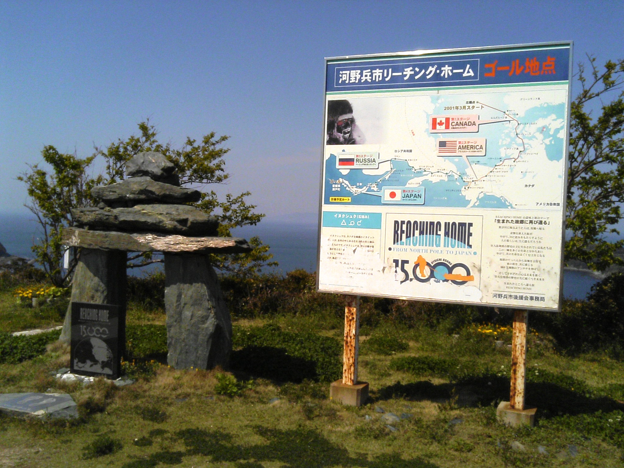 The "Reaching Home" memorial for Japanese explorer Hyōichi Kōno, in Ikata, Ehime, Japan